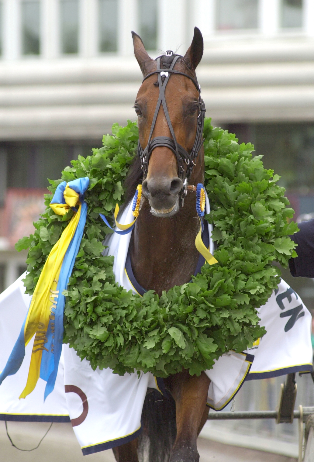 Trotter Victory Tilly after his win in the 2001 Jubilee Trophy race at Solvalla.